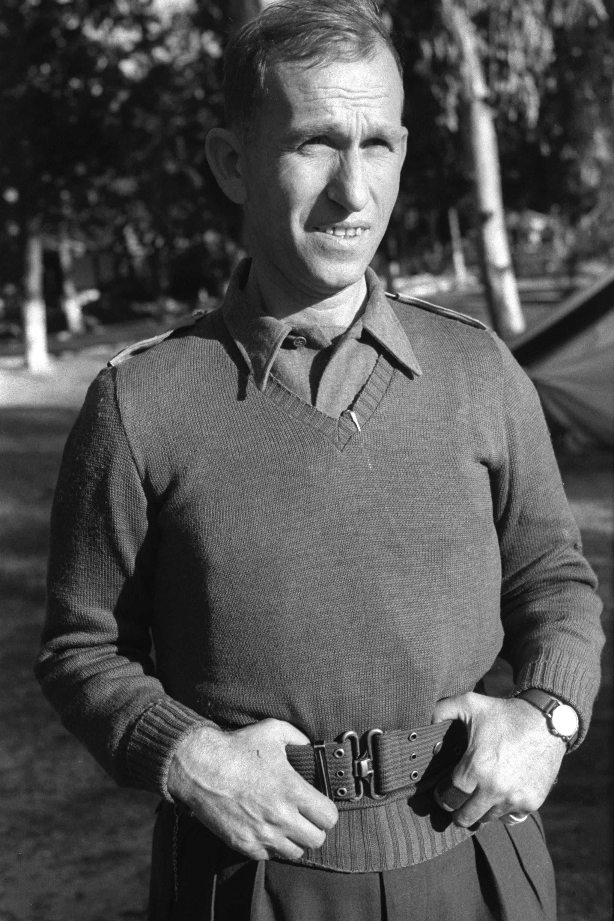 Original Description: DR. SHEBA IN CHARGE OF THE REHABILITATION CENTER.